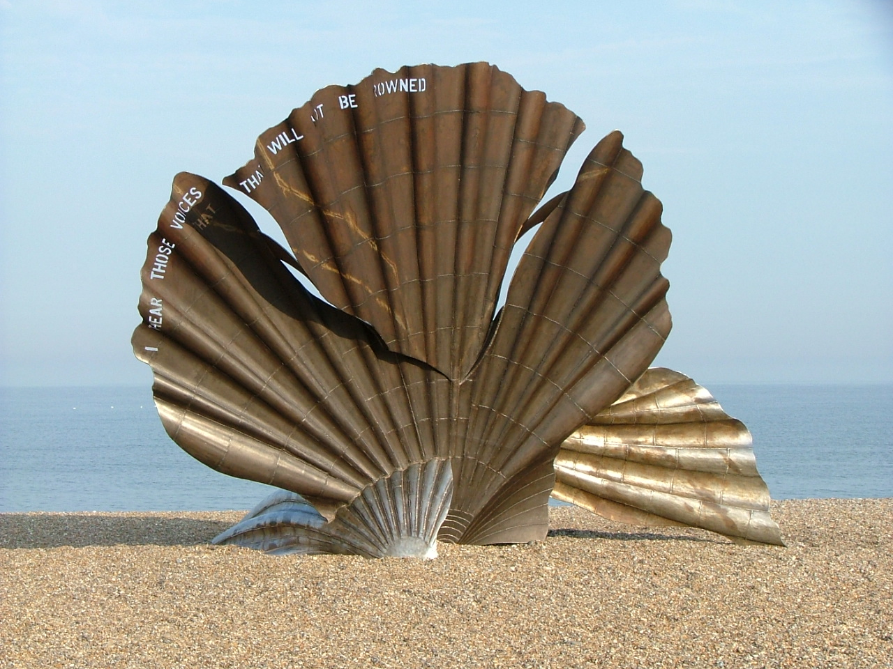 The Scallop sculpture by Maggi Hambling, Aldeburgh, Suffolk. Photographed on 6 ix 05 with a Fuji Finepix S5000.